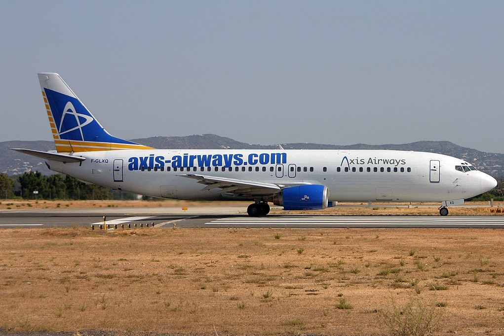 Boeing 737-4Y0 Axis Airways (F-GLXQ) at Faro Airport